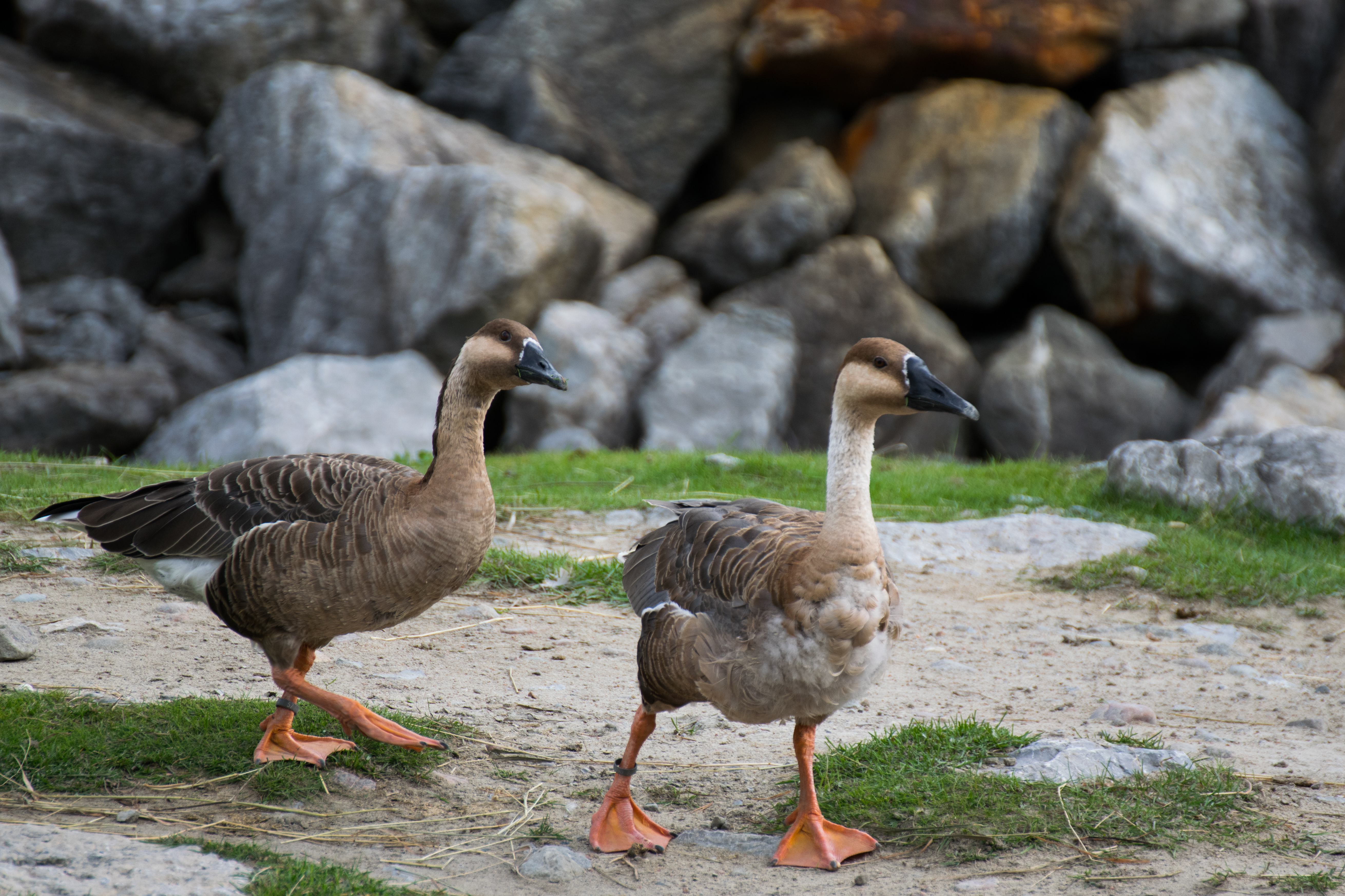 A swan goose at the Wild Zoo of St-Félicien (Quebec, Canada).